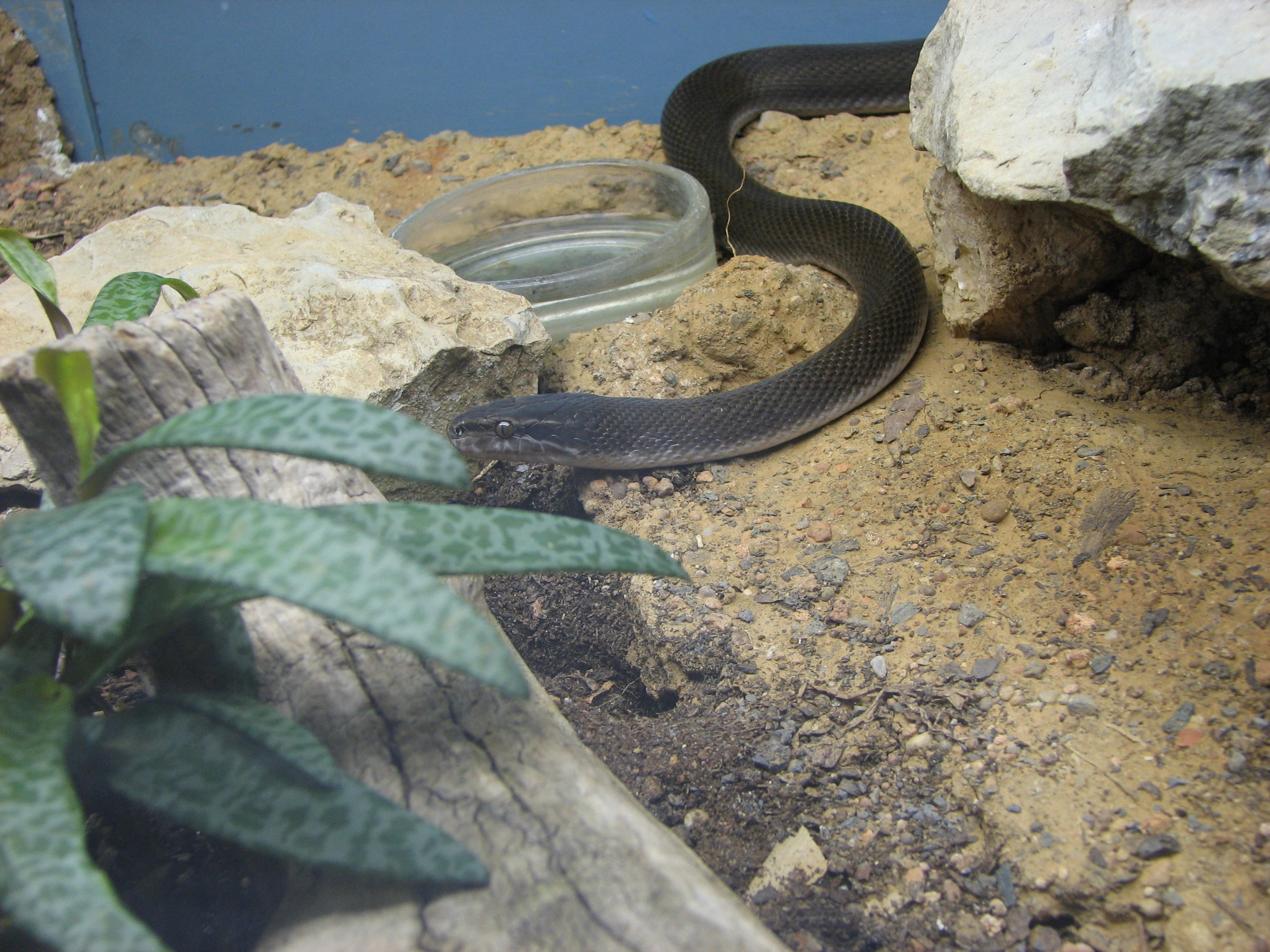 African House Snake